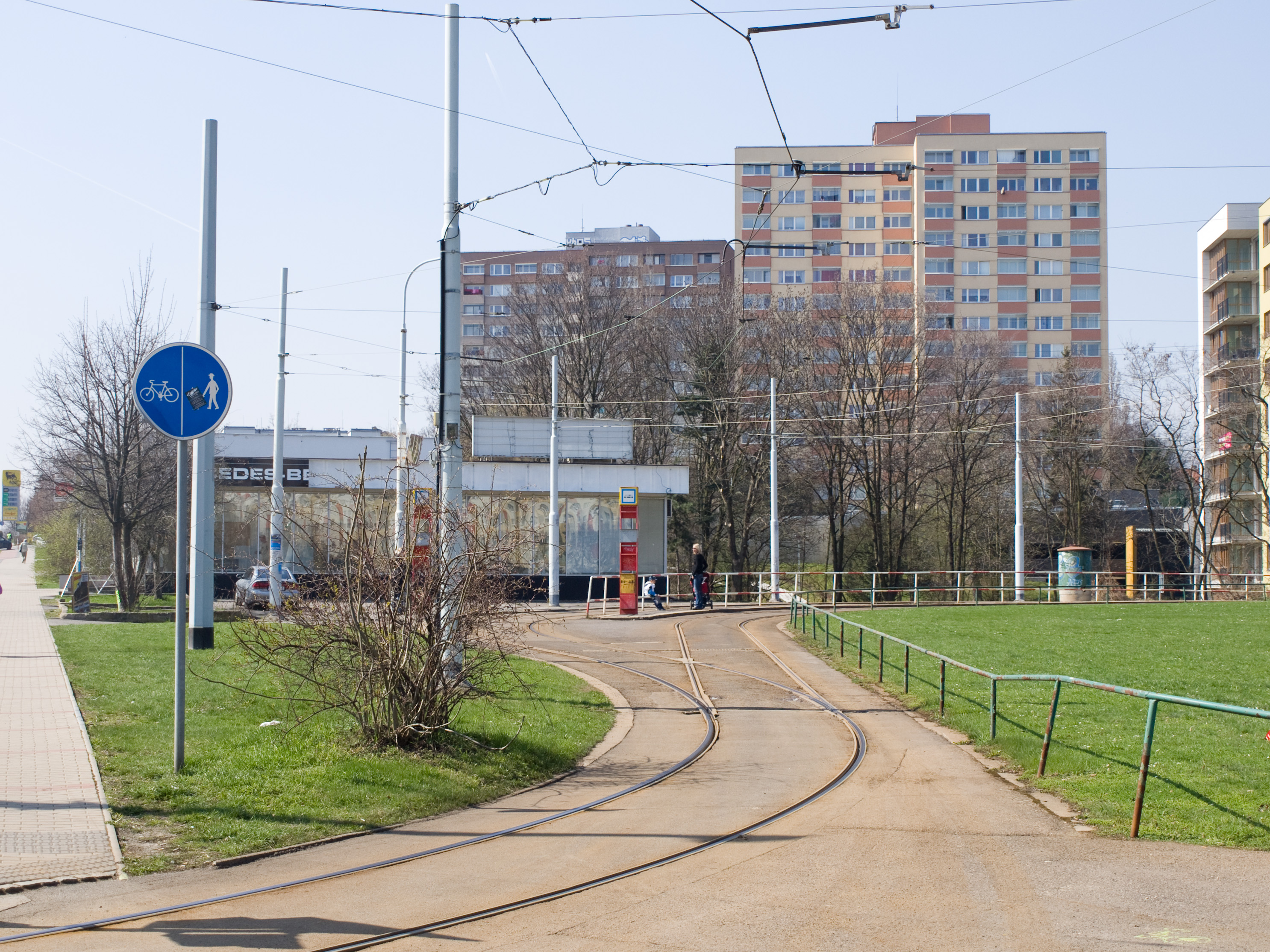 Tram loop Červený vrch, Vokovice, Prague 6